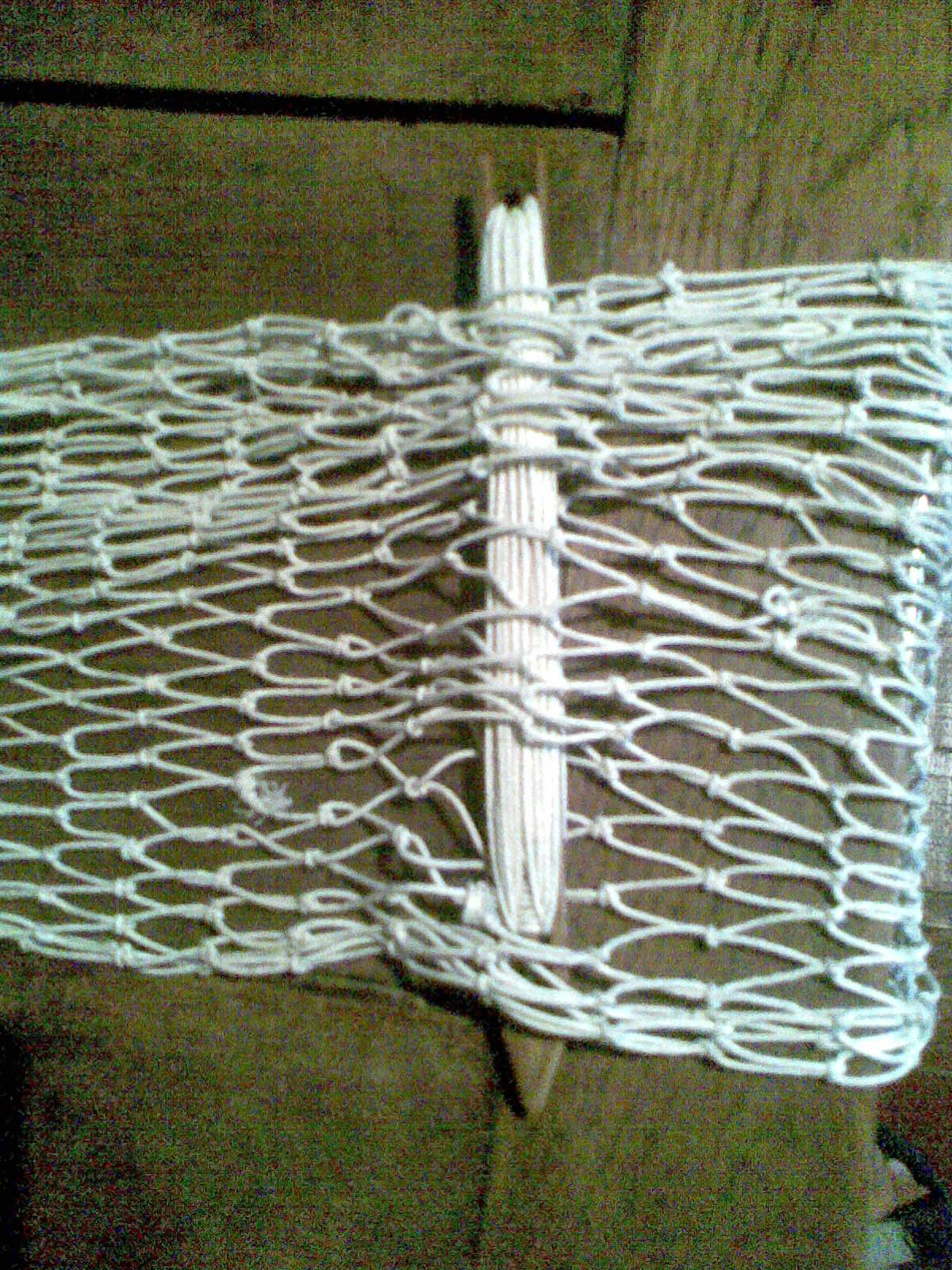 19th century stick weaving shuttle, a precursor of the modern weaving shuttle, now called a knotting needle Netznadel. For hand-knotting of curtains and fishing nets. Picture taken in old fisherman's hut (1881) in Jastarnia (Poland).